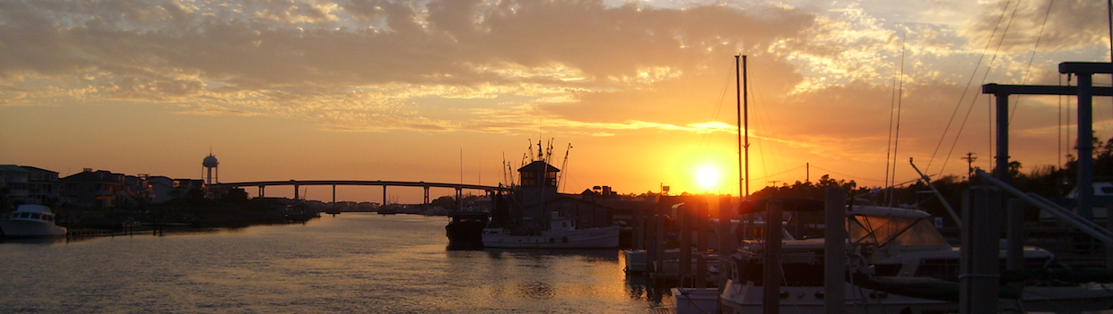 Panoramic view of the ICW with Holden Beach Bridge in the background. This photo is a cropped version of File:Oceansunset.JPG; its format was chosen to blend in with associated text in the Holden Beach Bridge Wikipedia page.